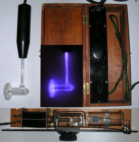 A violet ray appliance, an antique quack medical device from the early 20th century for applying high voltage, high frequency electric current to the body. It consists of a high voltage Tesla transformer in the box, connected to the glass electrode (left). When turned on, the electrode tube gave off a violet glow (inset, center). It was applied to various parts of the body to treat different complaints. RF 309 is the only inscription on this device that was built more or less long ago in 1956. The metadata for this picture are completely wrong, but unfortunately you can not change it here. User: Karl Bednarik photographed on 3 December 2006 it was combined with Microsoft Paint three photos: In the middle you see the purple glowing argon and at the bottom you can see the inner workings of the device with the Wagner's hammer in the middle, the mechanical amplitude is governed by a set screw.